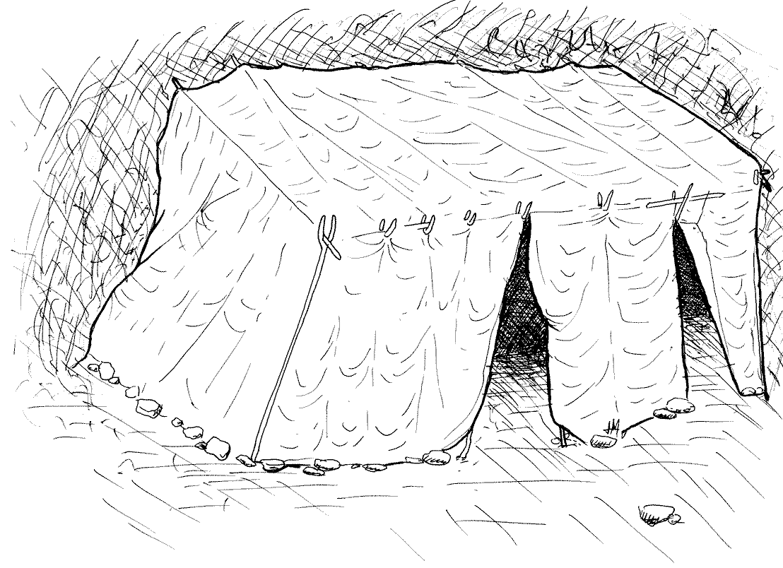 An Acheulean hut found in the Grotte du Lazaret near Nice, in France. It dates to 200.000 BCE